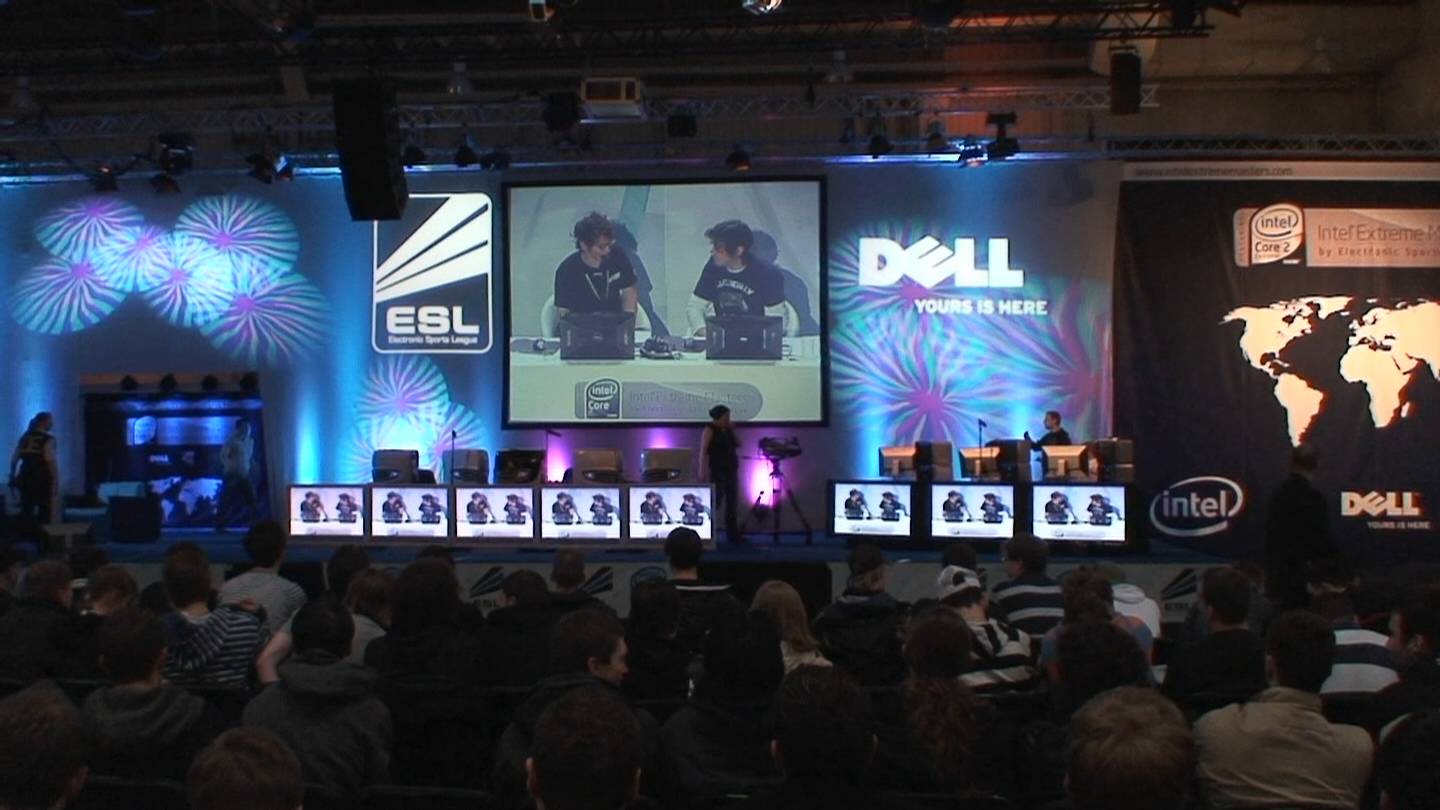 Intel Extreme Masters at CeBIT 2009